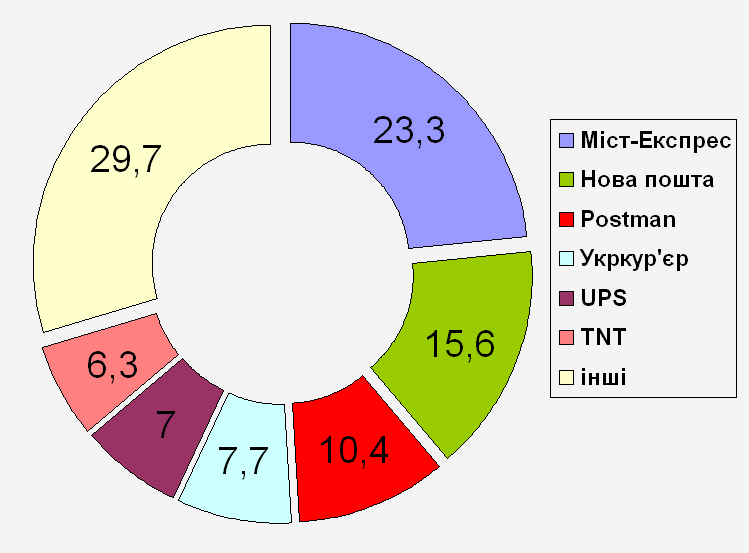 2013 market shares of companies in the door-door segment according to the research of the logistics market by UADM in 2013